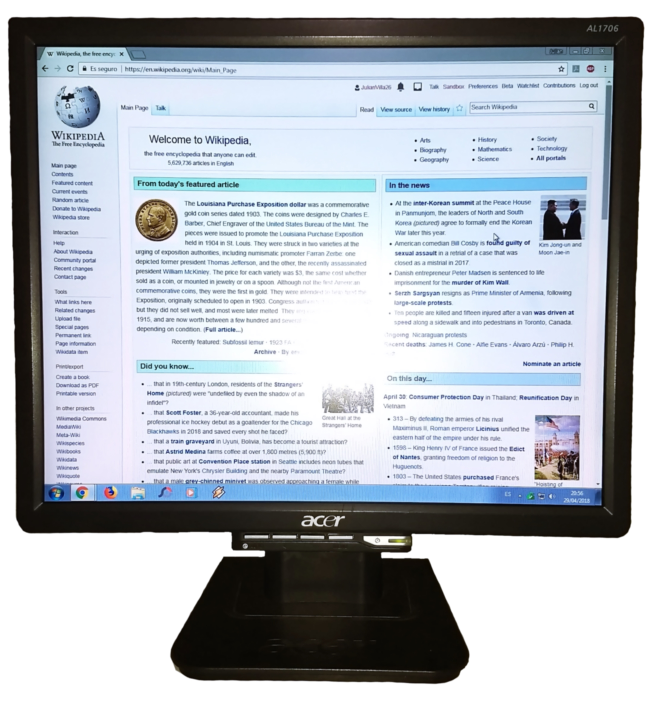 An Acer AL1706 (circa 2007) LCD monitor SXGA 1280x1024 ratio 5:4